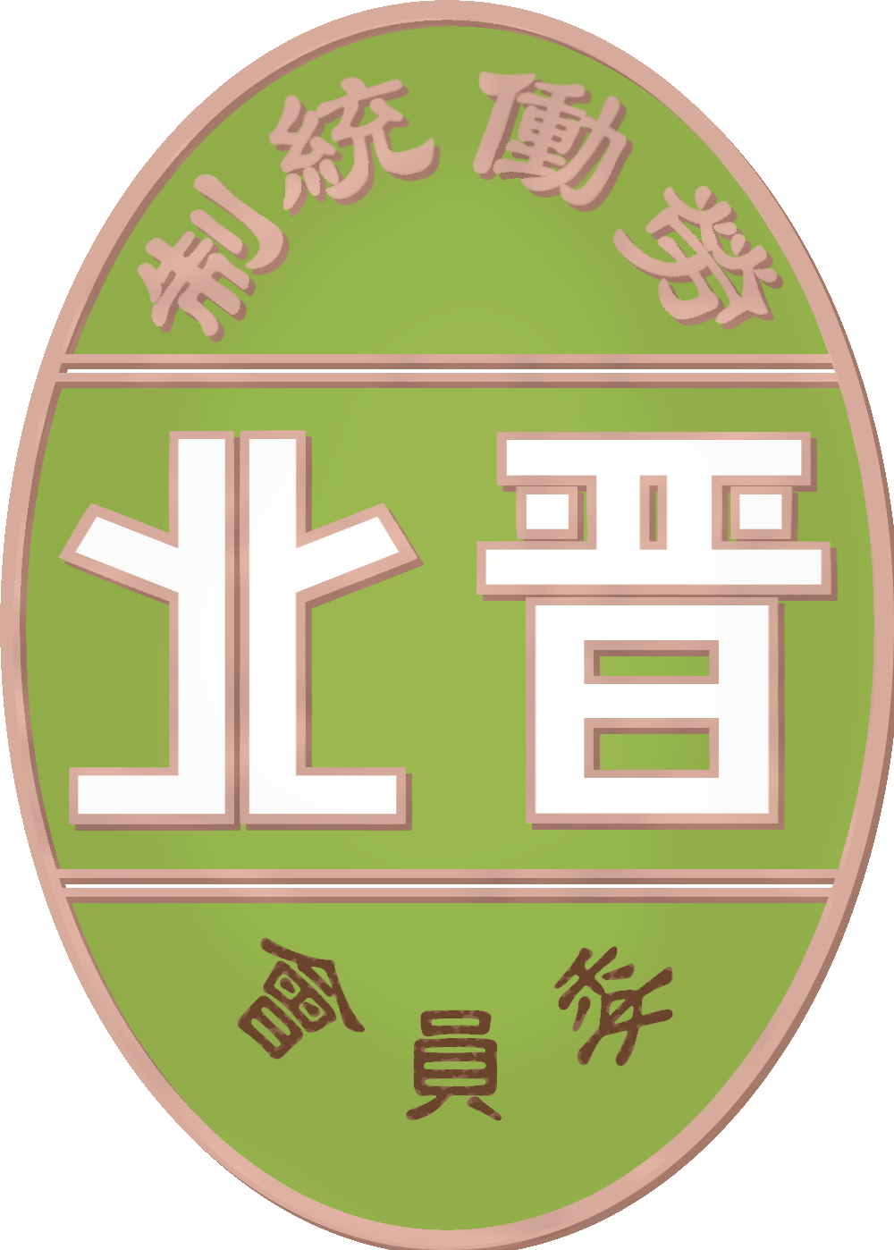 The logo of the Labor Control Committee of North Shanxi. An organization tasked with finding labor for Japanese needs during their occupation of China, specifically in the jurisdiction of the North Shanxi Autonomous Government. This logo is from 1941, and may have changed over time. The source for this digital recreation of this logo is from this link: (Registration to the site is required however to view said photo)